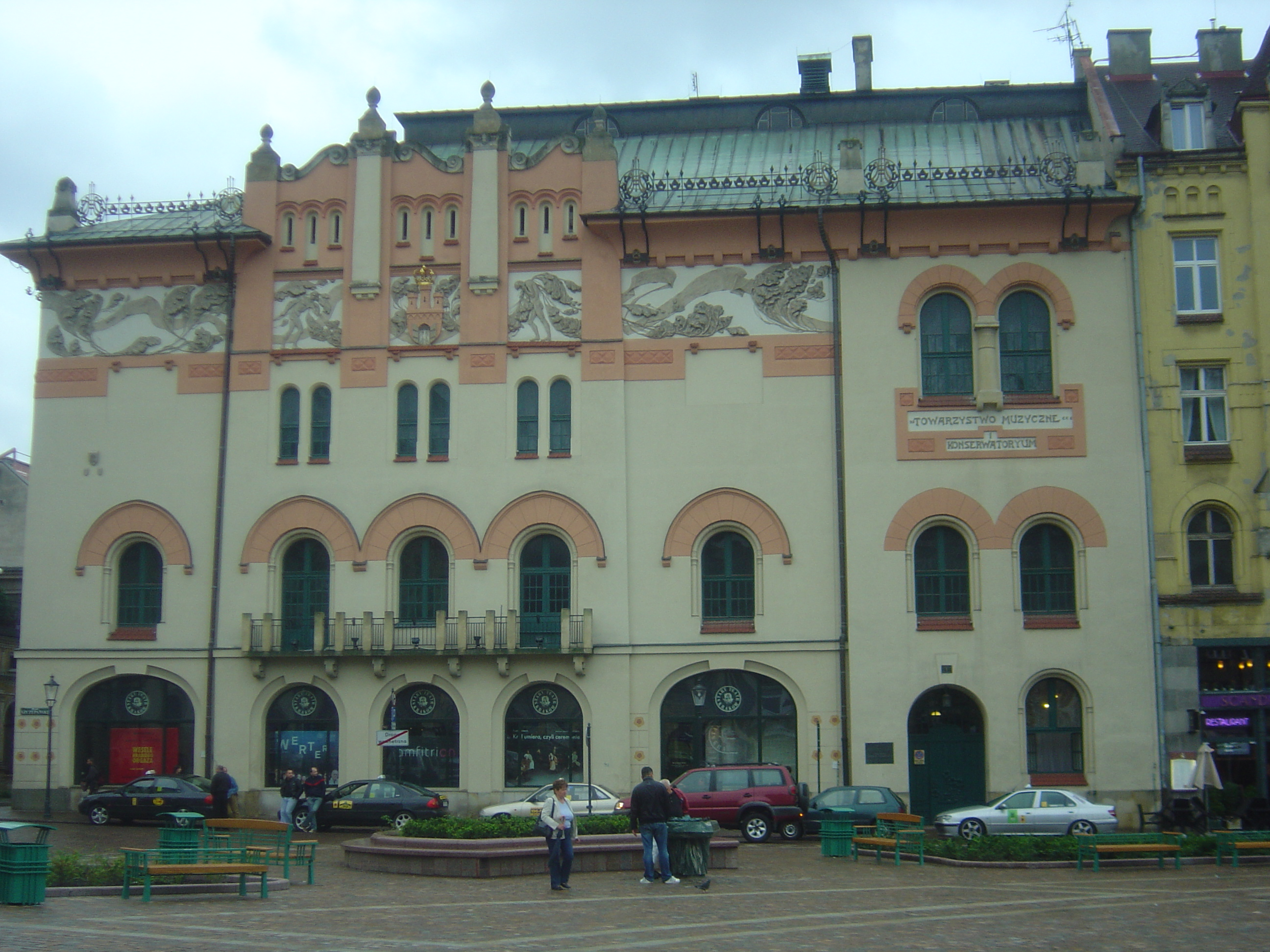 The Old Theatre in Crakow